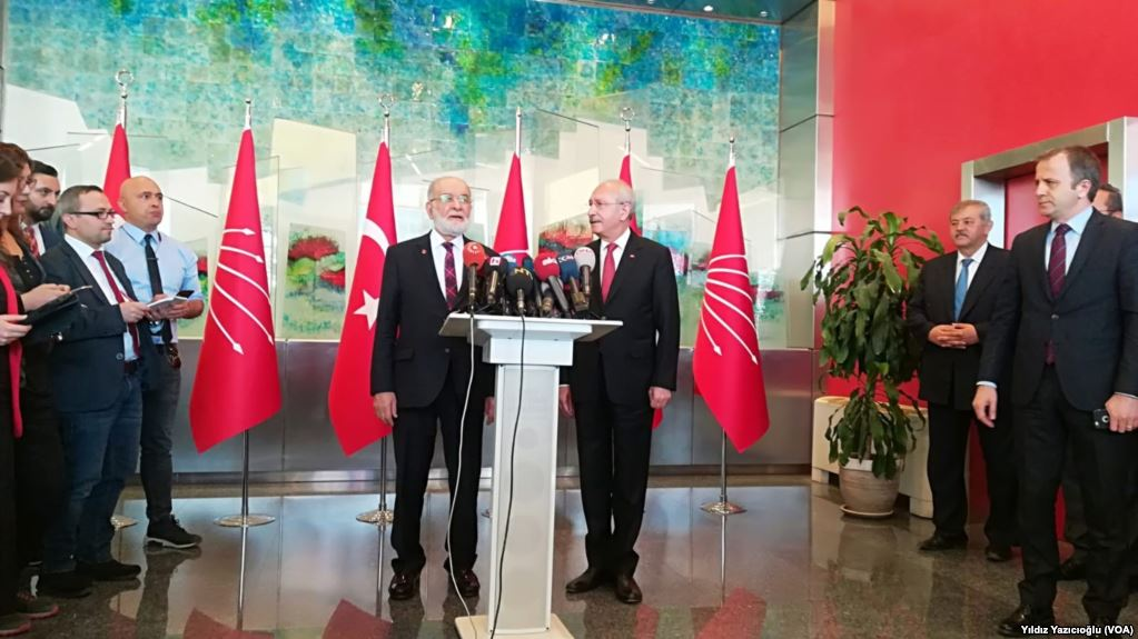 CHP leader Kemal Kılıçdaroğlu and SP leader Temel Karamollaoğlu meet in advance of the 24 June 2018 general elections